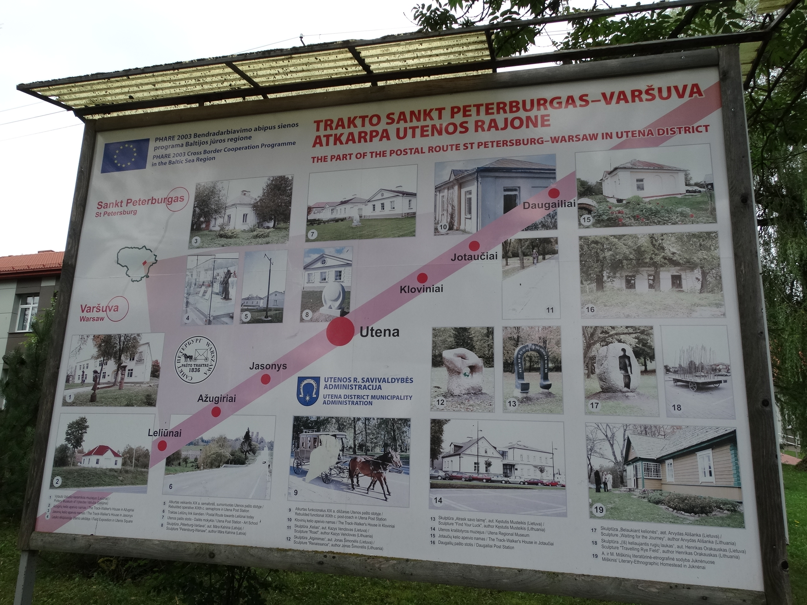 Information board (former post stations by the road St. Petersburg-Warsaw in Utena district), Leliūnai, Lithuania